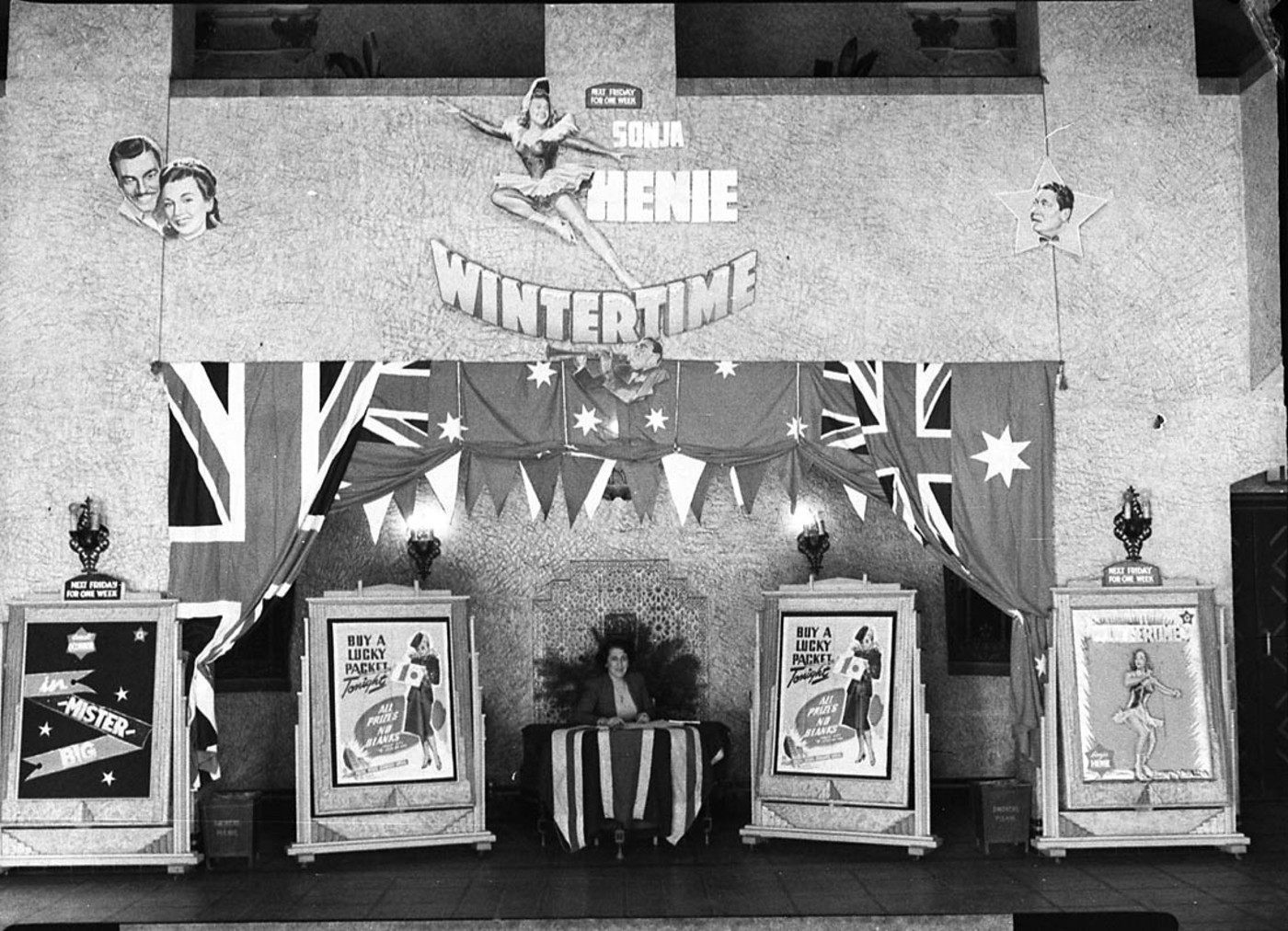 Movie display advertising the film with Sonja Henie in "Wintertime" at conference of theatre managers (taken for Laurie)